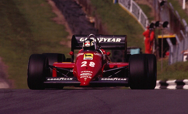 Stefan Johansson - Ferrari 156/85 - European F1 Grand Prix -Brands Hatch 1985